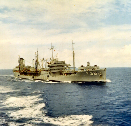 The U.S. fleet oiler USS Kennebec (AO-36) approaching the Allen M. Sumner-class destroyer USS Collet (DD-730) for an underway replenishment in the Western Pacific in 1964.